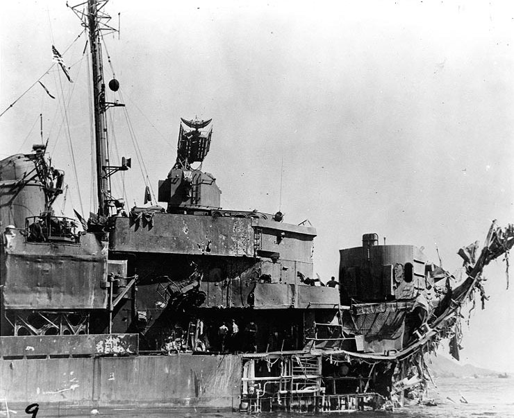 View of extensive damage to the forward hull and superstructure of the U.S. Navy destroyer minelayer USS Lindsey (DM-32), received when she was struck by two Kamikaze planes off Okinawa on 12 April 1945. The photograph was taken at Kerama Retto anchorage on 14 April.